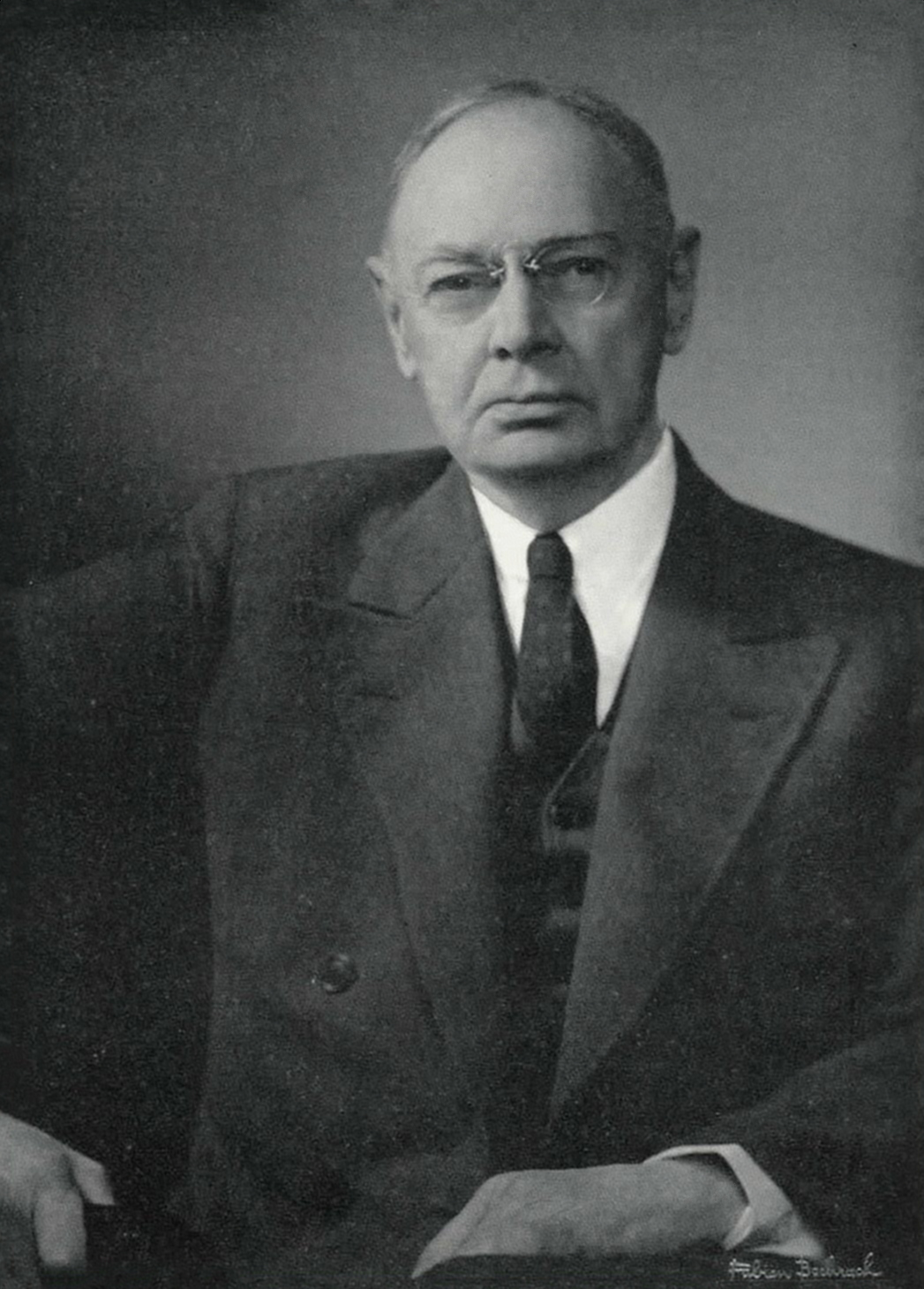 William Robinson Brown of New Hampshire, in early to mid 1900s.